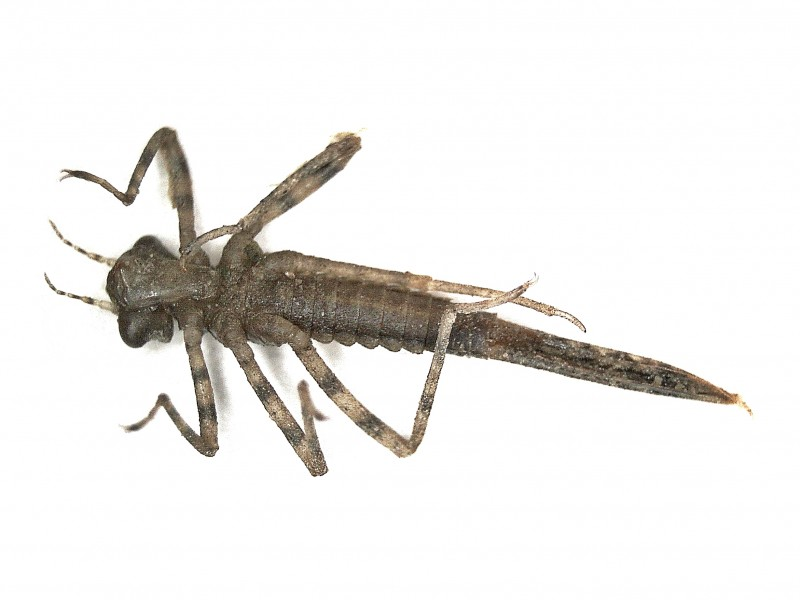 Platycnemis pennipes (Platycnemididae) (Blue Featherleg) - (larva - nymph), Elst (Gld) - De Park, the Netherlands